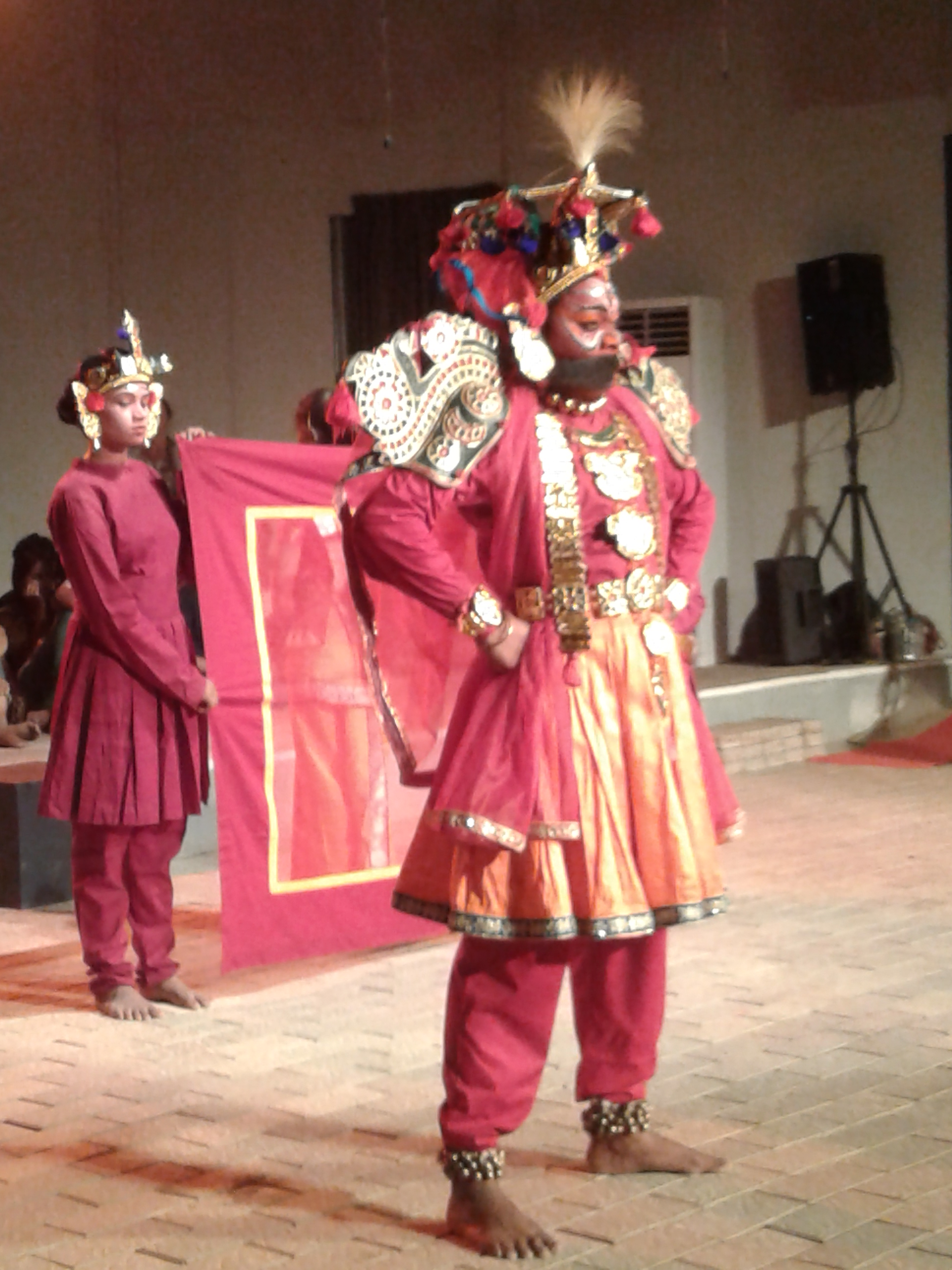 Karnatic Kattaikkuttu at Kochi muziris Biennale 2018